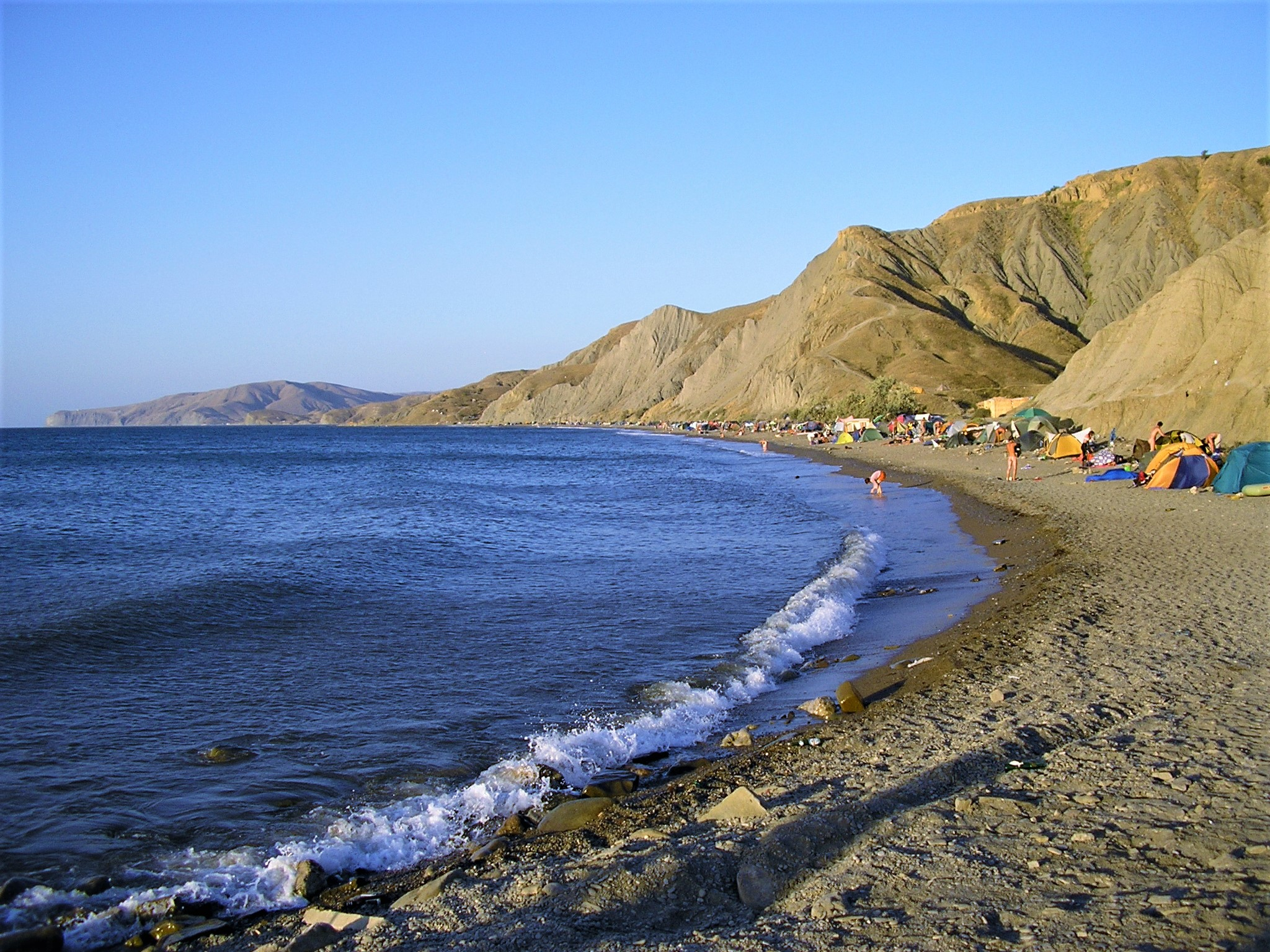 The Lisya Bay en Crimea